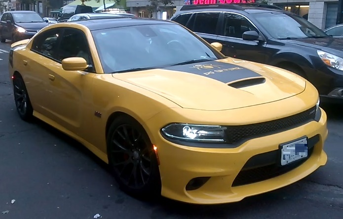 Dodge Charger SRT8 photographed in Montréal, Québec, Canada .